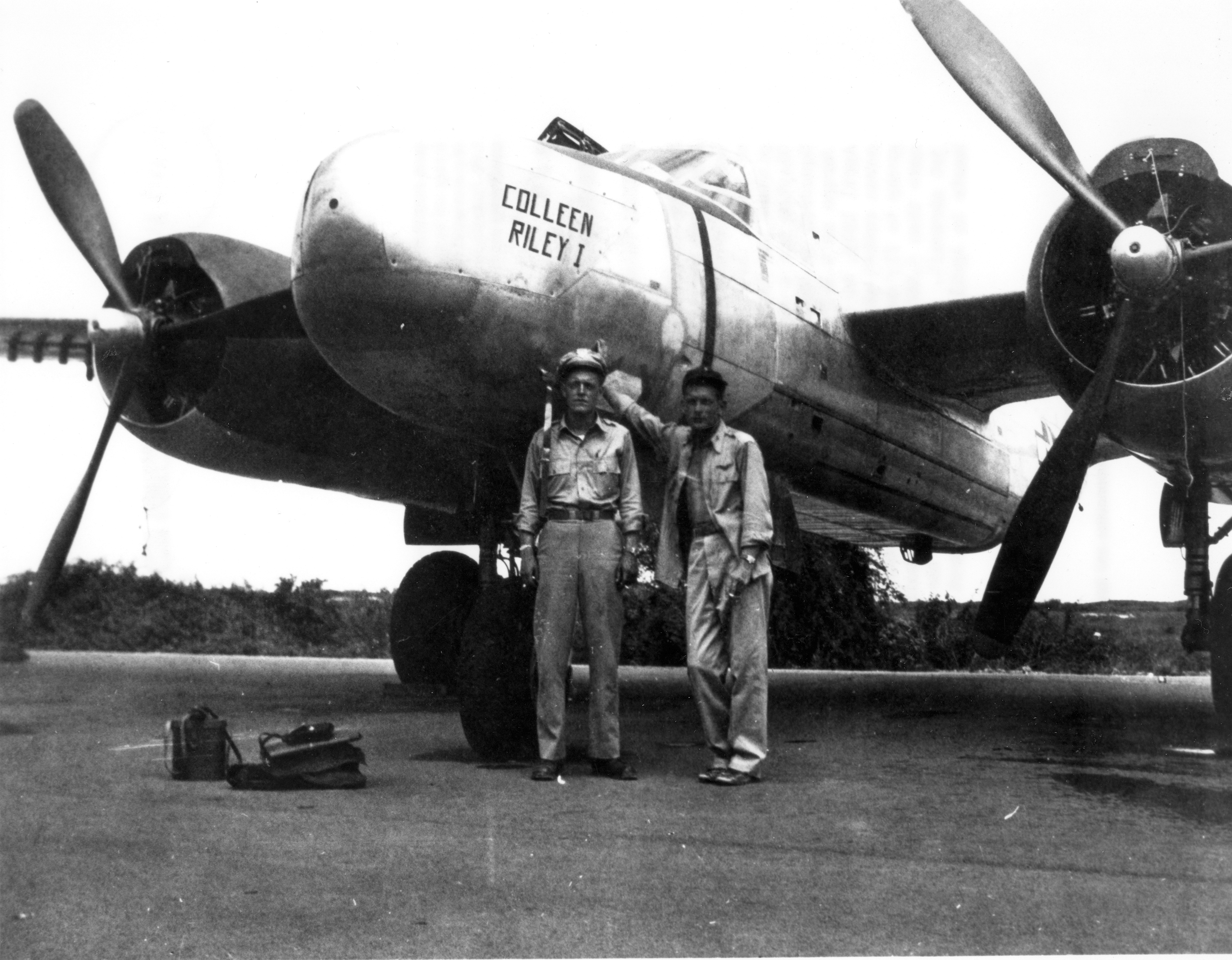 This World War II photograph shows future Astronaut Donald "Deke" K. Slayton (on right) and 1st Lt. Ed Steinman (on left) beside a Douglas A-26 bomber in the Pacific Theater of Operations during the summer of 1945. While the exact location is unknown, the photograph was most likely taken on Okinawa.